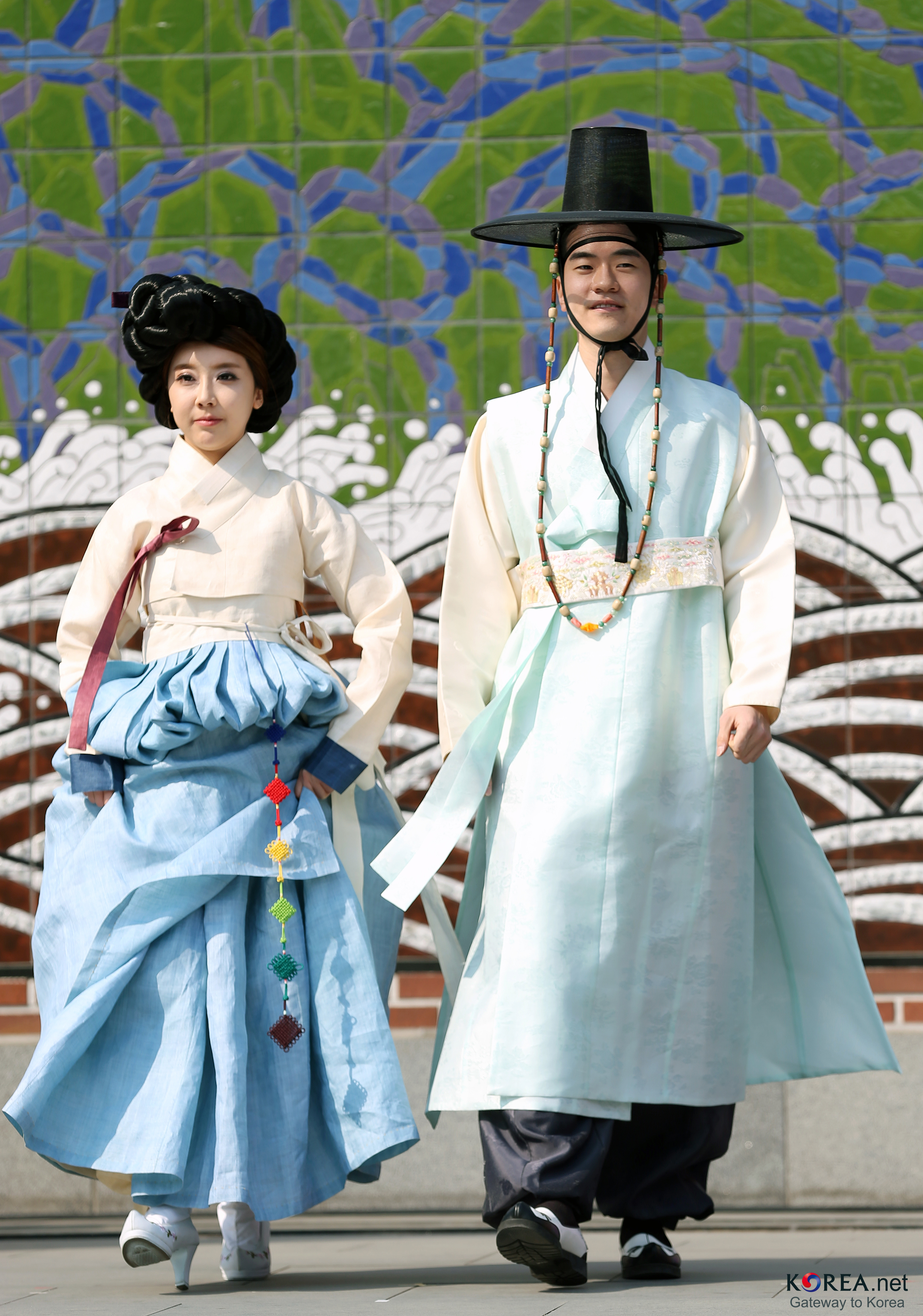 Korea_Spring_of_Insadong_23